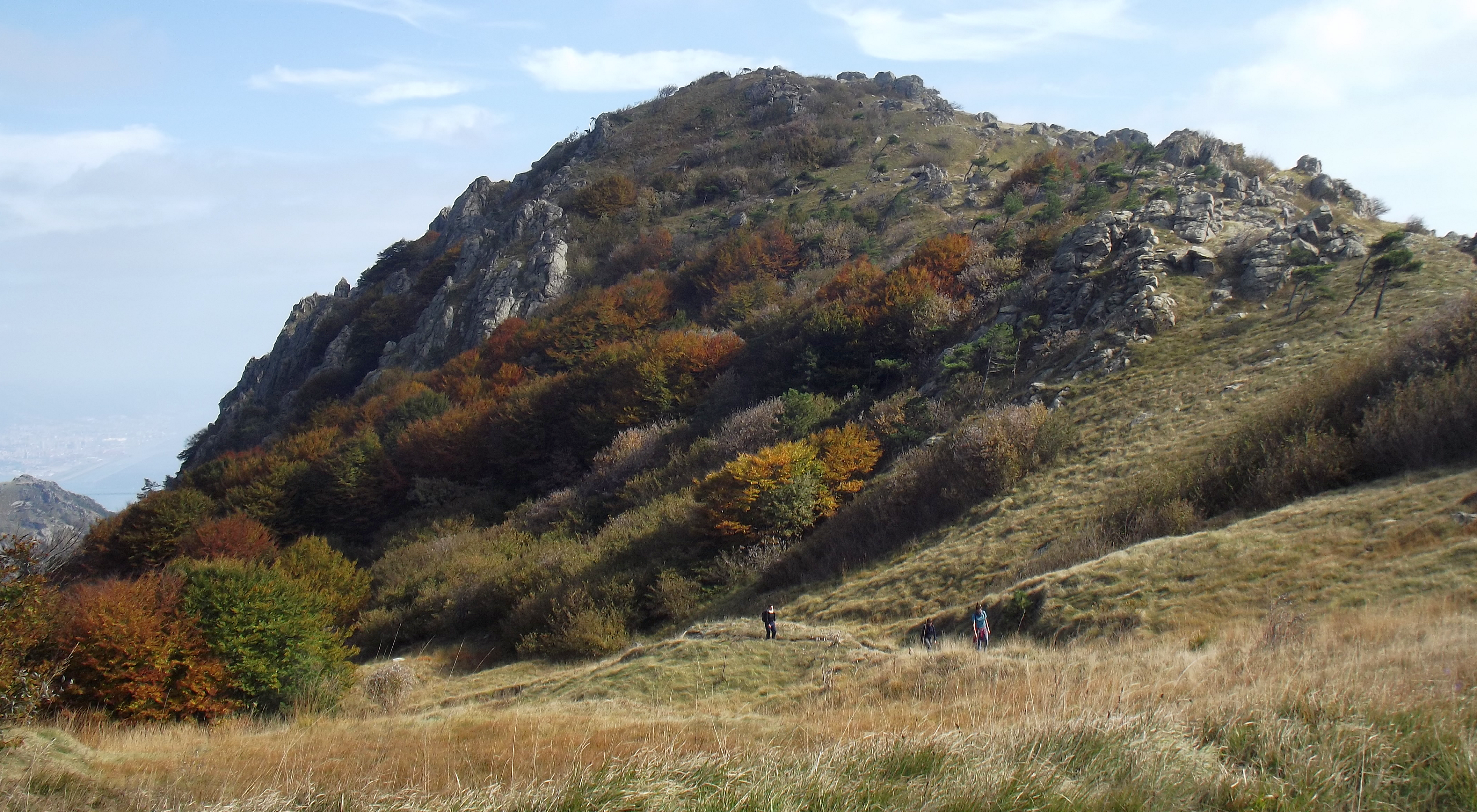 Cima Fontanaccia noth face (Ligurian Apennines, Italy), on the left in the distance can be seen the port of Genoa